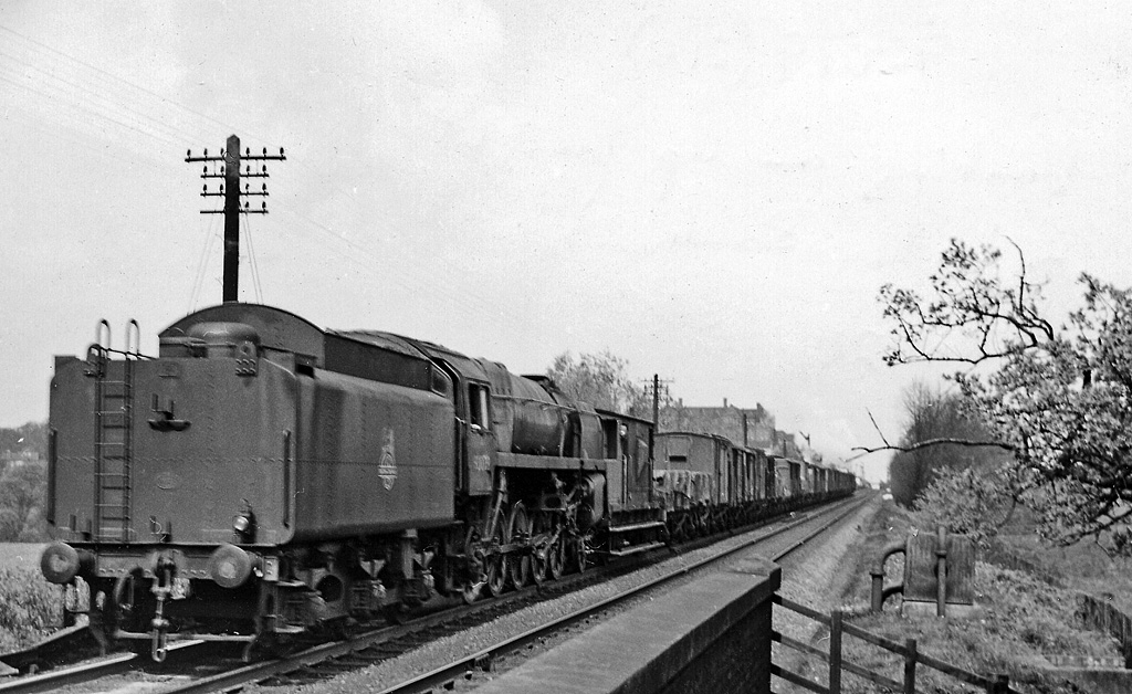 To the top of the Lickey Bank at Blackwell, with banker at rear of an ascending freight, View northward, towards Blackwell and Birmingham; ex-Midland Birmingham - Bristol main line. The Lickey Banker in 1957 was BR Standard 9F 2-10-0 No. 92079, successor to 'Big Bertha'. Here it is near the top of the two-mile 1-in-37 bank from Bromsgrove, with Blackwell in sight.